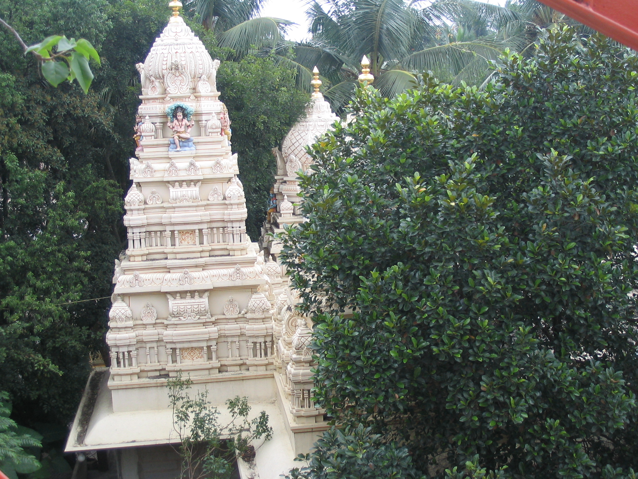 Author: Krishnan, license free